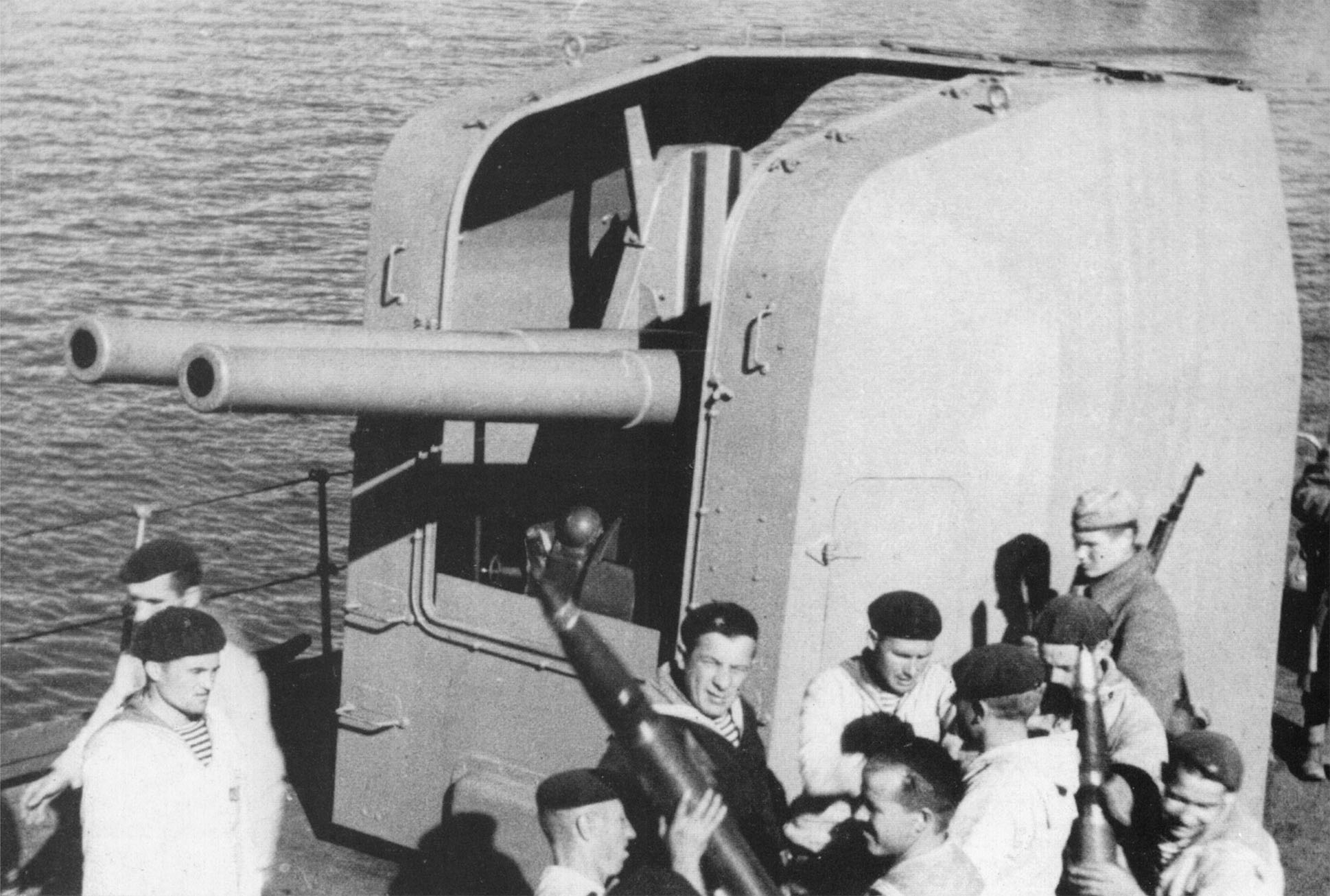 Soviet 100 mm anti-air gun Minizini on cruiser Krasnyy Kavkaz.